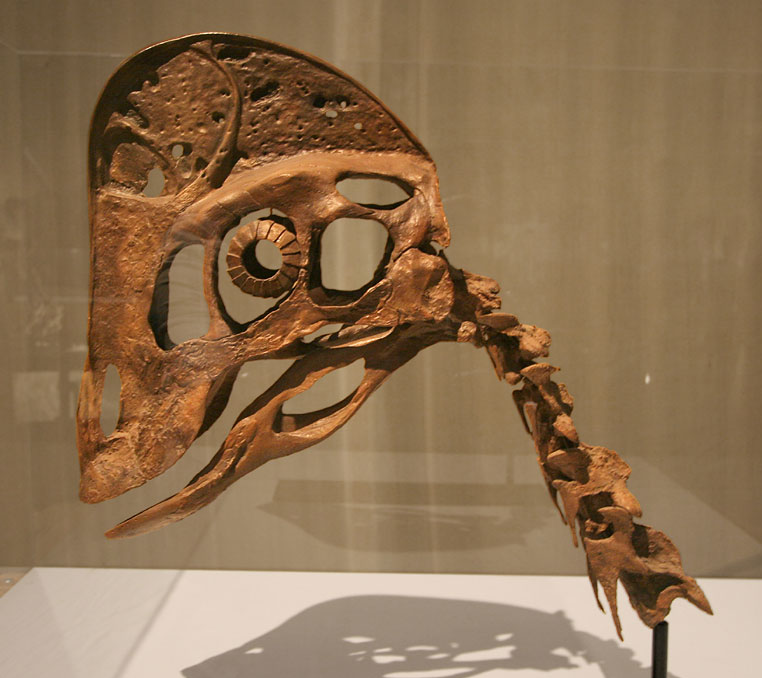 Restored skull and neck vertebra of Anzu wyliei (previously labelled as a specimen of Chirostenotes)